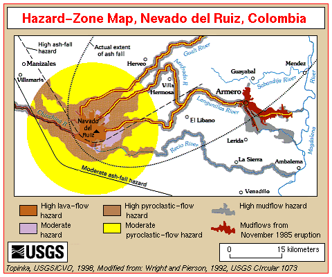 Image depicting map of the armero disaster. Public Domain work of US GOV Agency USGS [1]